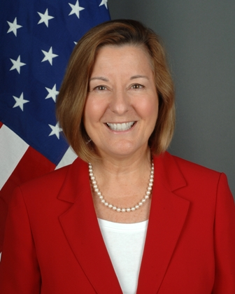 Martha Larzalere Campbell, U.S. diplomat. As of 2009, U.S. ambassador to the Marshall Islands.